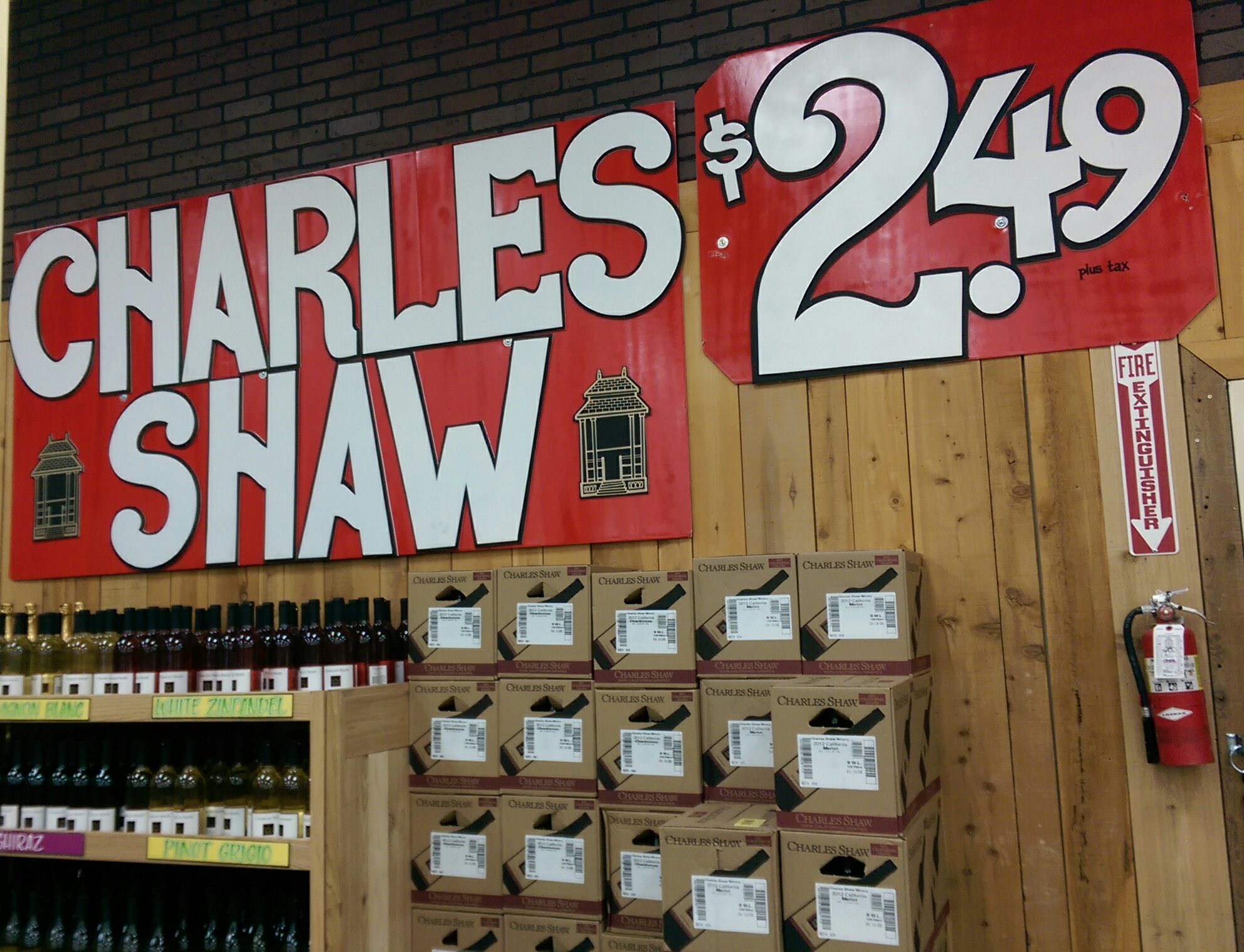 A display of Charles Shaw wines at a Trader Joe's store after a price increase. Photo by Jim Heaphy.